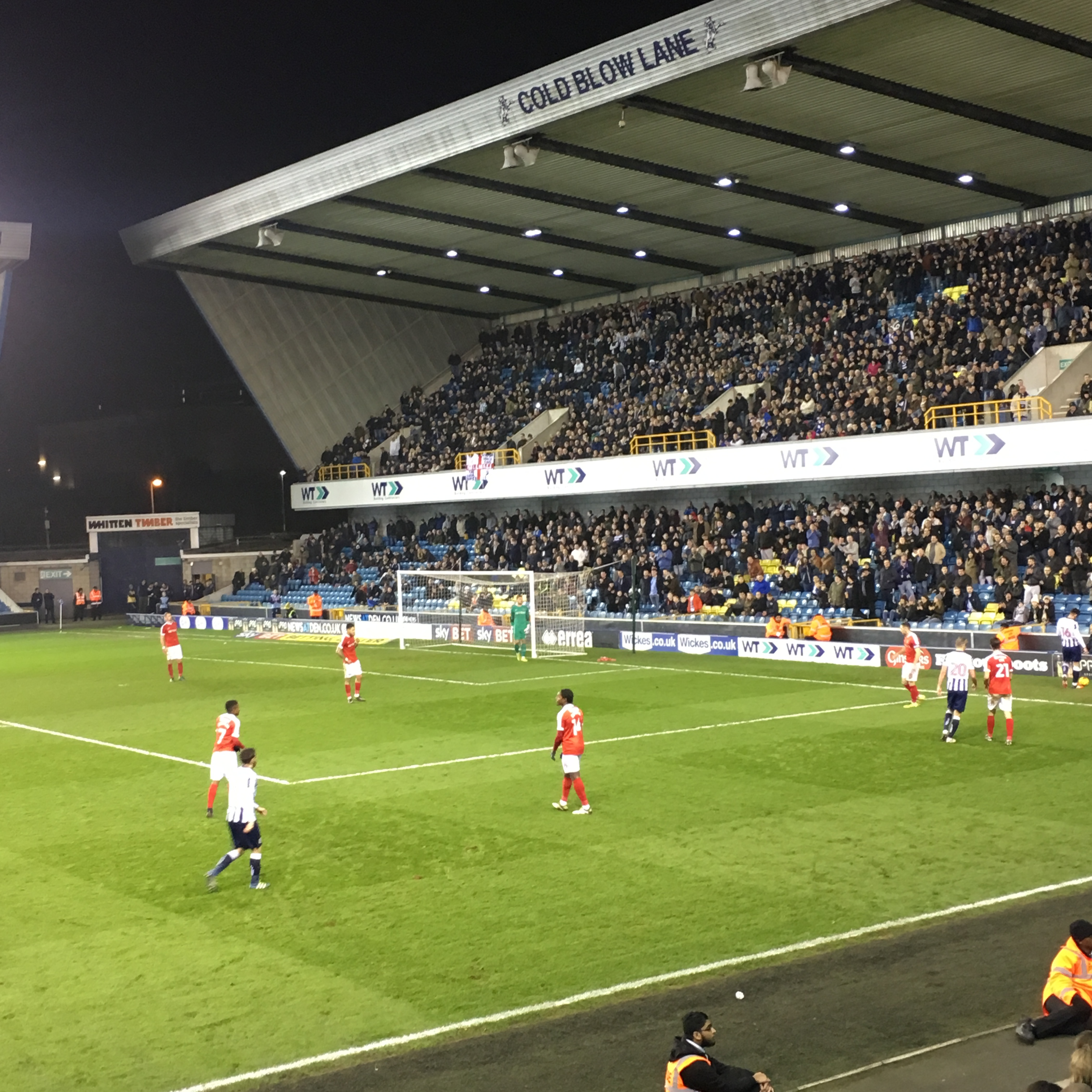 Millwall attack the Cold Blow Lane Stand against Charlton Athletic in the South London Derby at The Den.